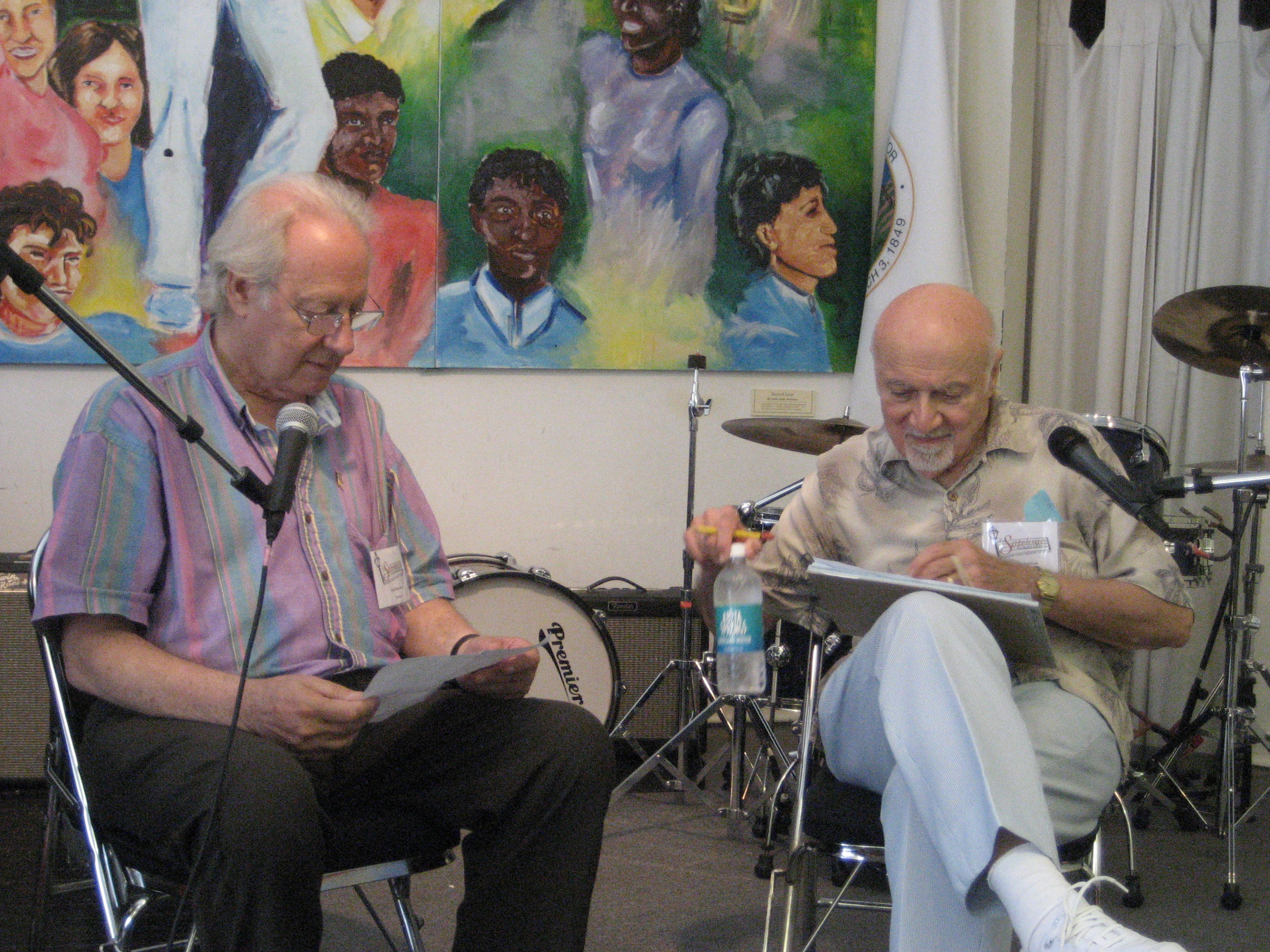 Jazz writer Dan Morgenstern, left, with record producer George Avakian, right. Panel at Satchmo Summer Fest, New Orleans.